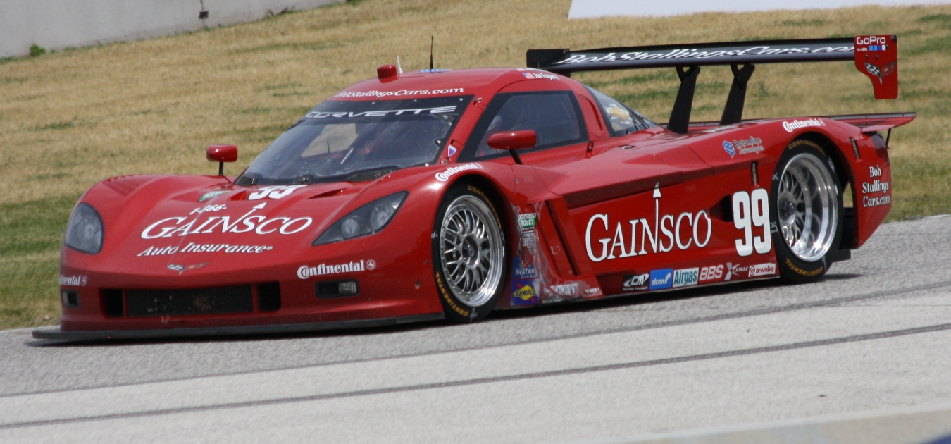 The GAINSCO Daytona Prototype driven by Jon Fogarty and Alex Gurney at a 2012 race at Road America.